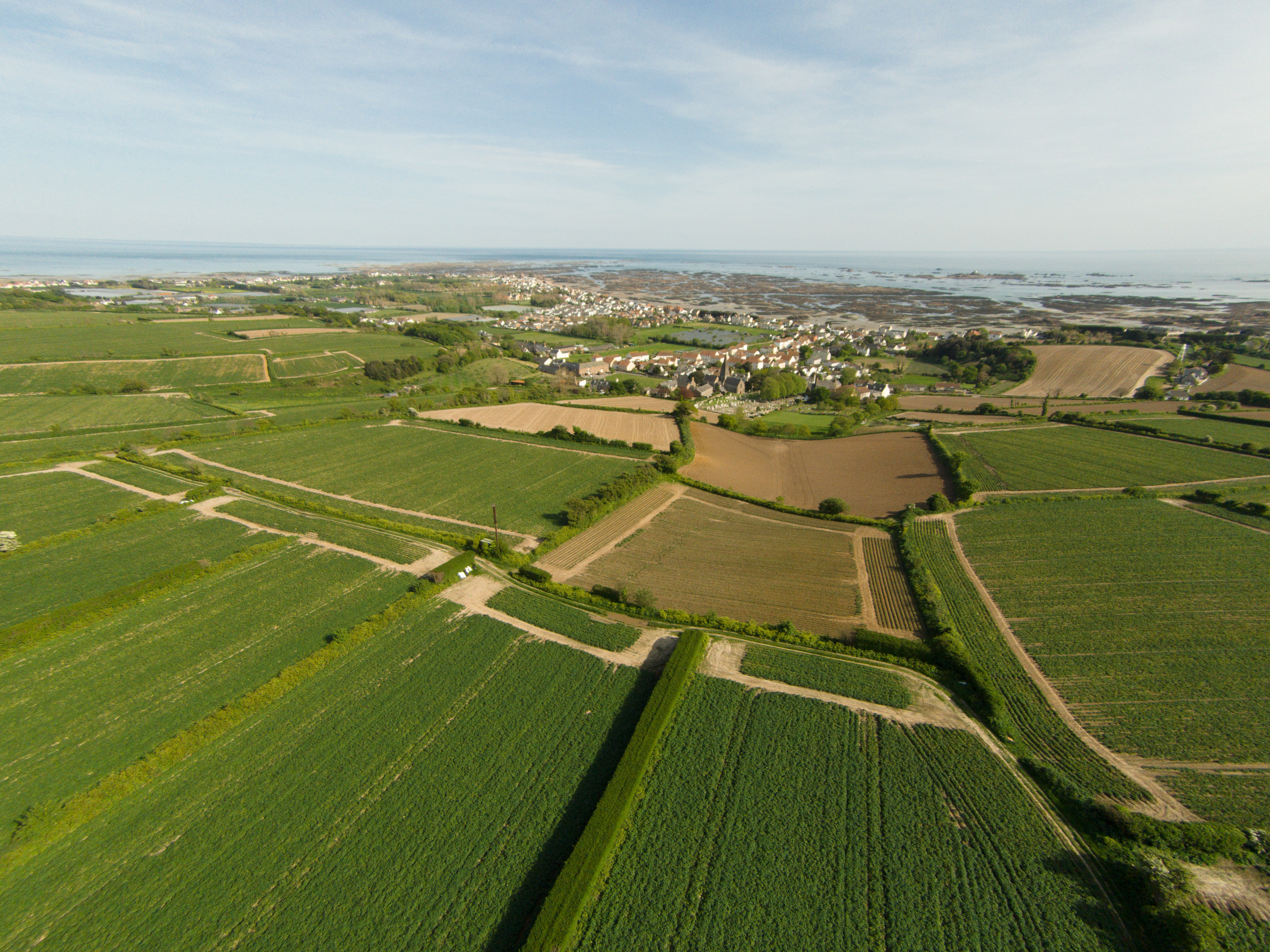 View of St Clement, in Jersey, from the air.